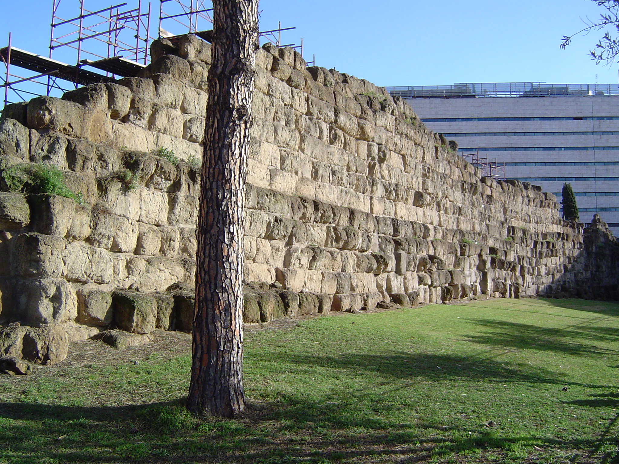 Servian Wall, near Stazione Termini, Rome, Italy. Made by Joris van Rooden, the Netherlands on 03-01-2006